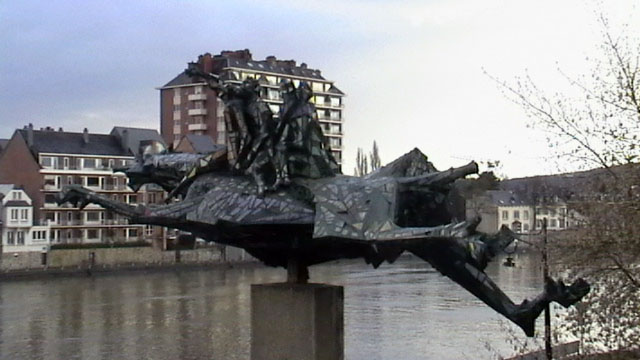 Namur : Horse "Bayard" and the four sons of Duke Aymon (by Olivier Strebelle for Expo 1958)